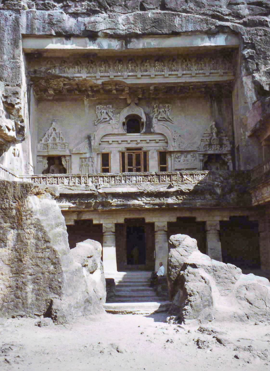 Buddhist cave temples of Ellora in Maharashtra (Cave 10, Buddhist)